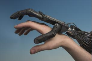 Comparison of the Shadow Dexterous Hand to the human hand